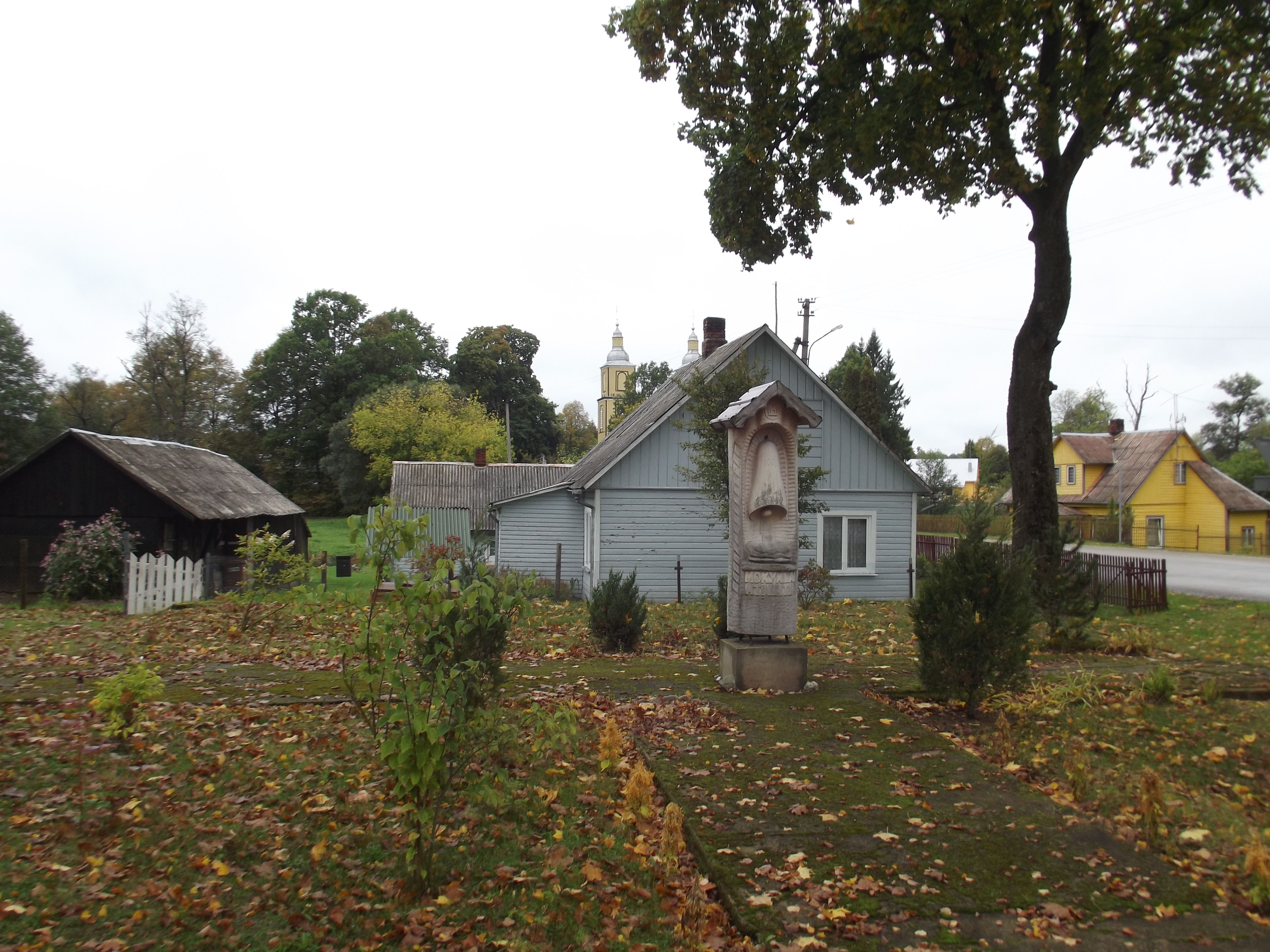 Višakio Rūda, Kazlų Rūda municipality, Lithuania